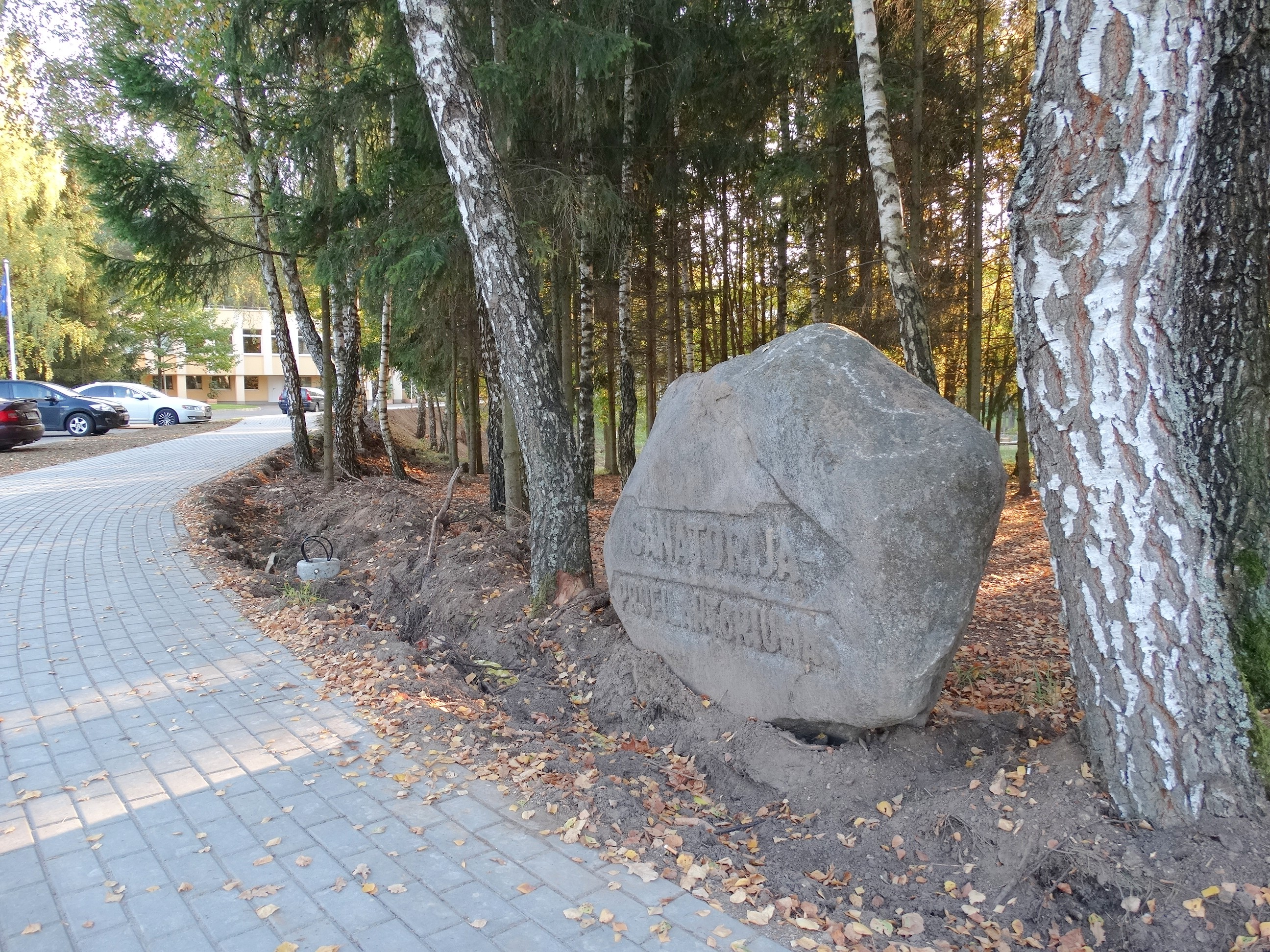 Stone by rehabilitation hospital, Abromiškės, Elektrėnai Municipality, Lithuania